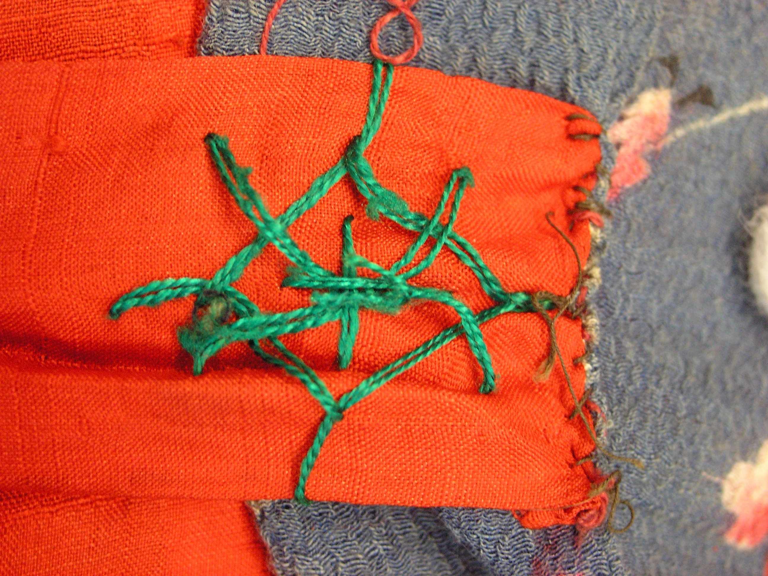 Kimono; grey-blue crepe cotton printed-hand dyed with flower sprays in red and white, full length gown, padded hem, scarlet silk lining, freehand paste resist YUZEN ZOME embroidery.